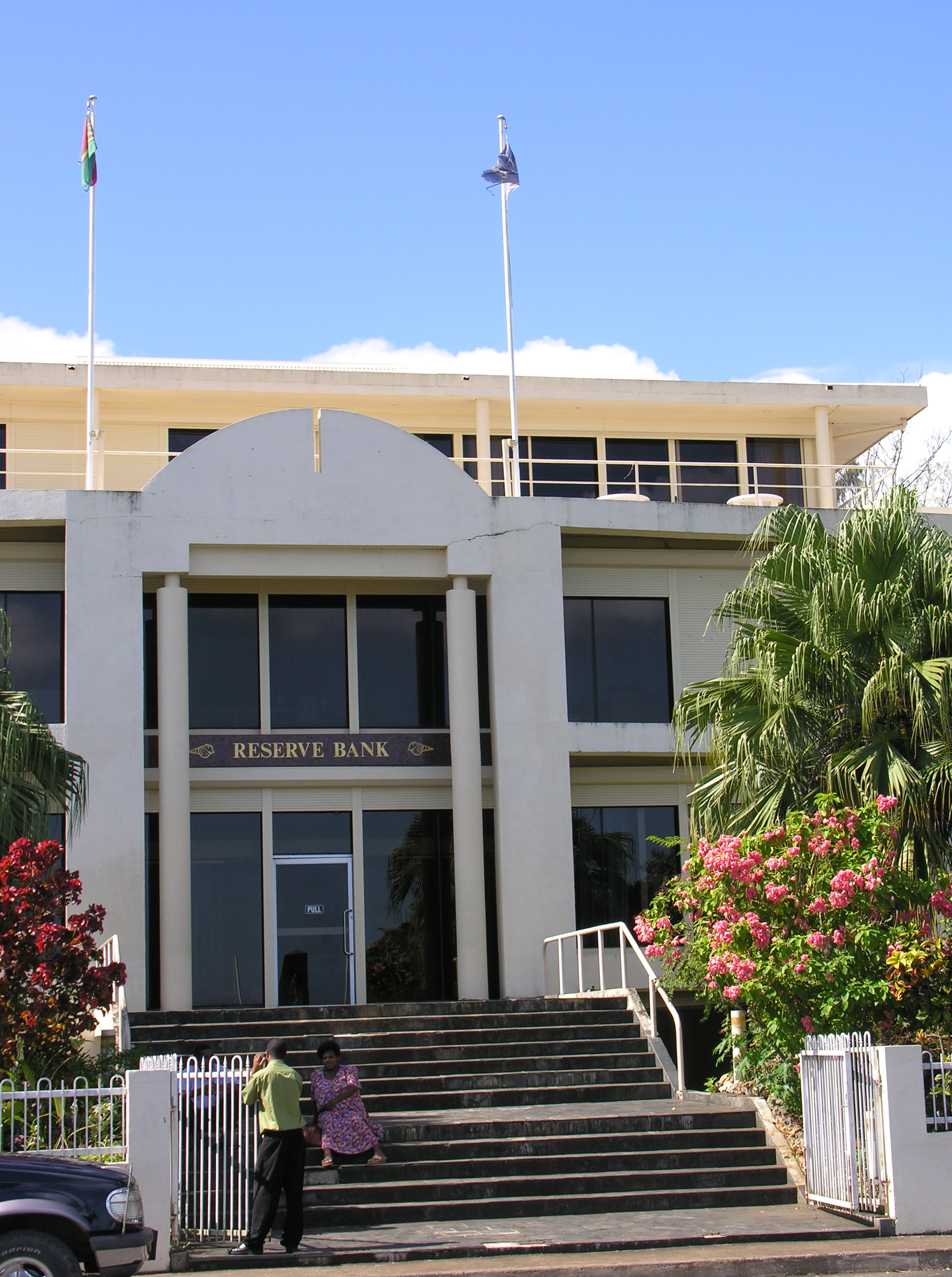 Reserve Bank of Vanuatu, Port-Vila